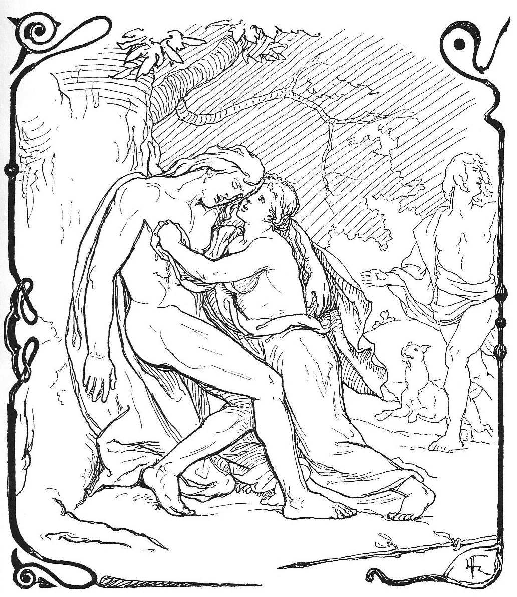 Baldr being held by a female, presumably his mother Frigg, after he has died from a wound sustained from mistletoe. Illustration appears within the Völuspá hin skamma section.